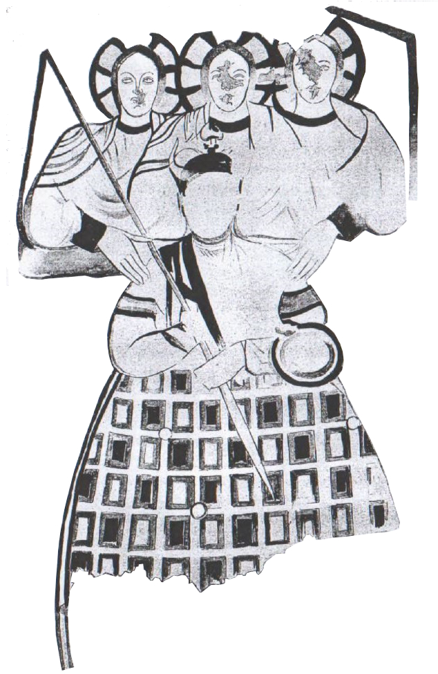 Mural depicting an eparch or king, 12th century. Edit: The depicted person is an eparch (Jakobielski: "Horned Crown - an Epigraphic Evidence")